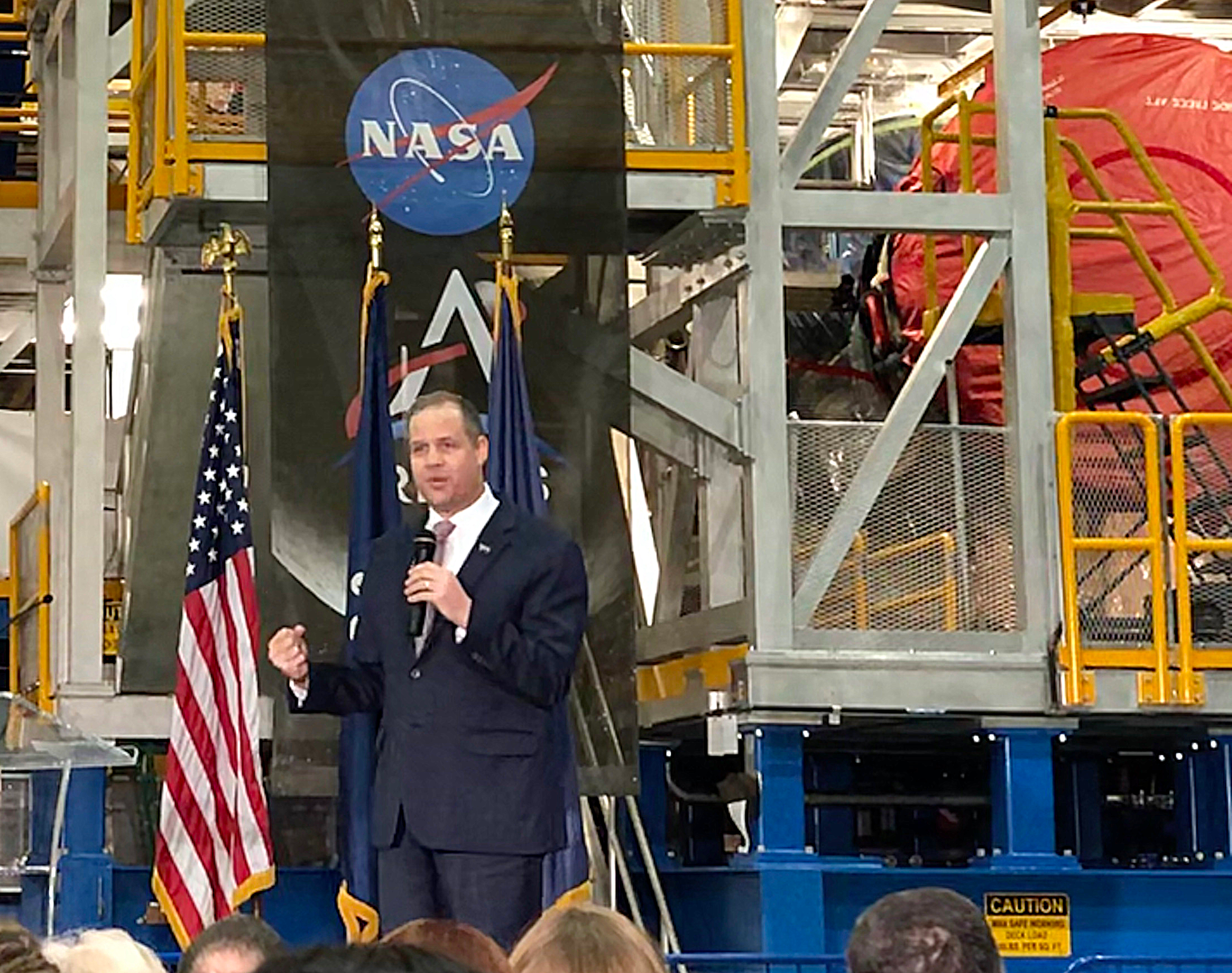 Administrator Bridenstine speaking at the Michoud Assembly Facility in front of the newly completed SLS core stage for the Artemis 1 mission